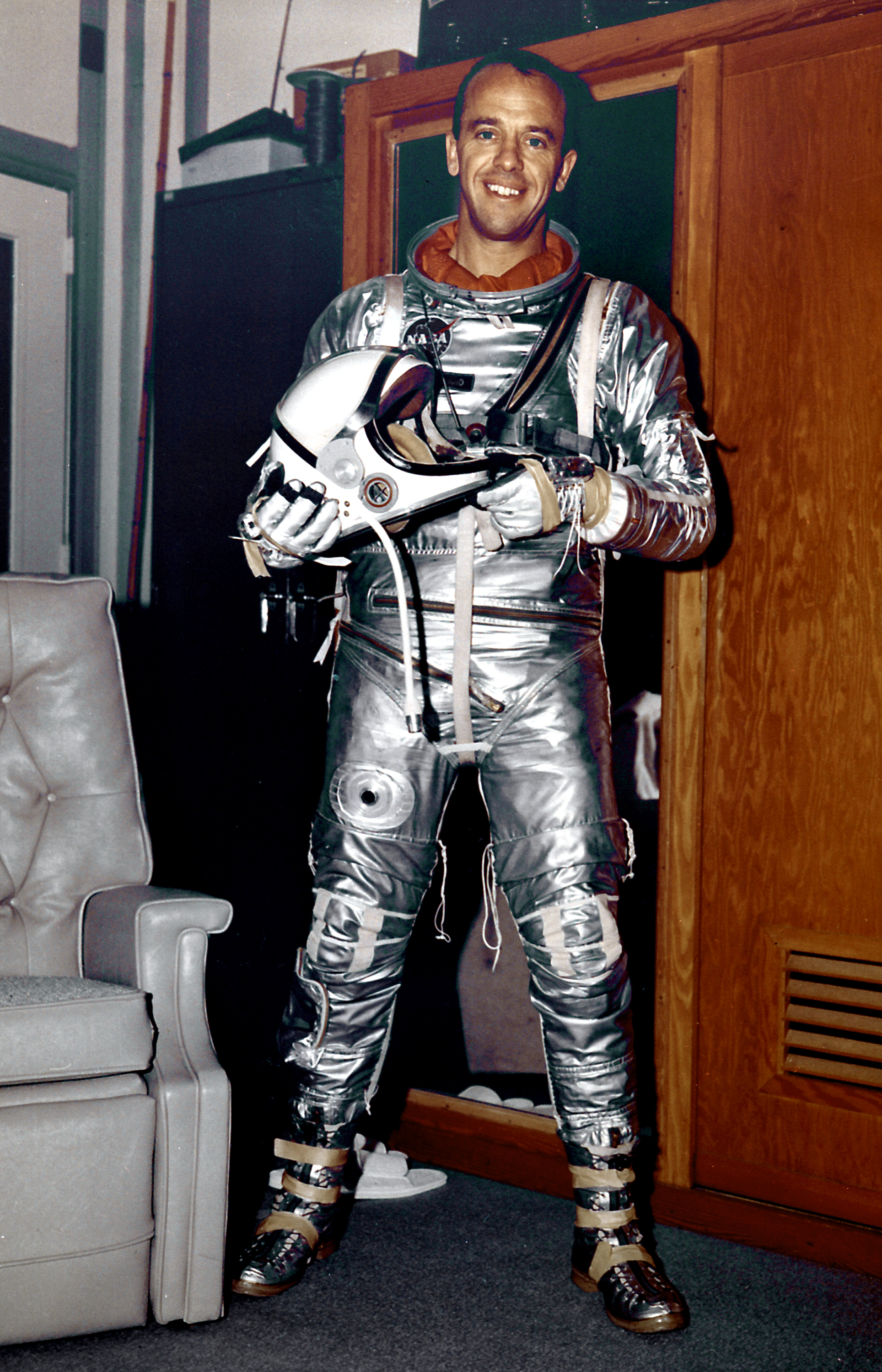 Astronaut Alan B. Shepard, one of the original seven astronauts for Mercury Project selected by NASA on April 27, 1959. The Freedom 7 spacecraft boosted by Mercury-Redstone vehicle for the MR-3 mission made the first manned suborbital flight and Astronaut Shepard became the first American in space.